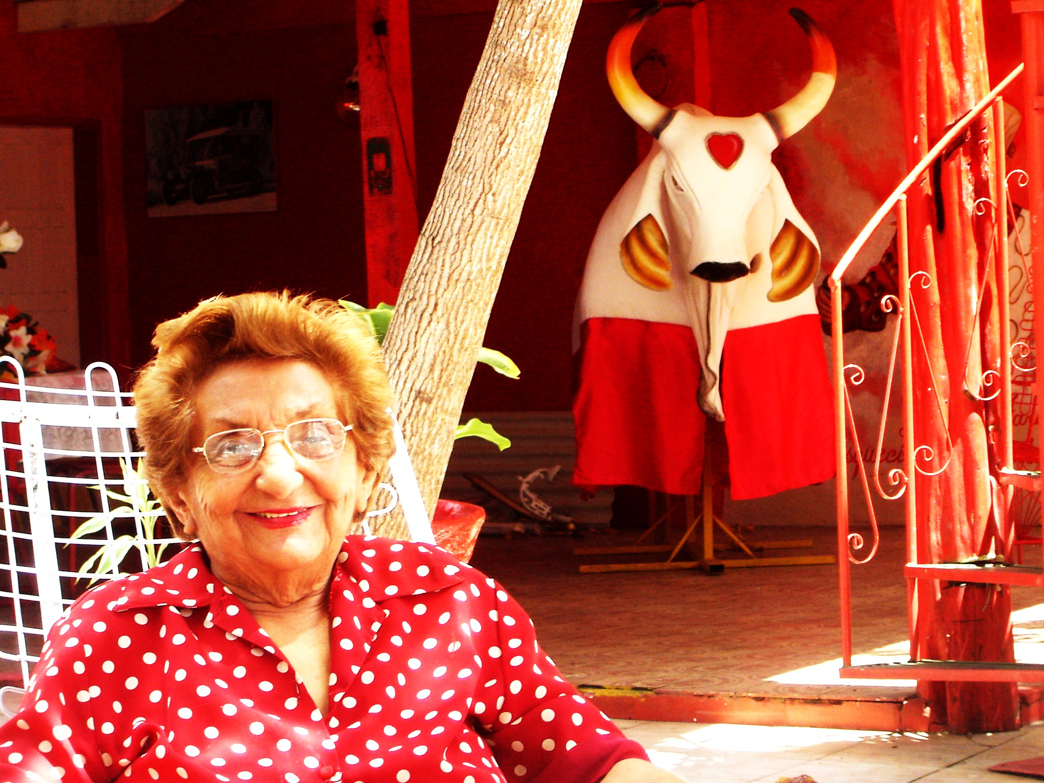 Madrinha do Boi Garantido